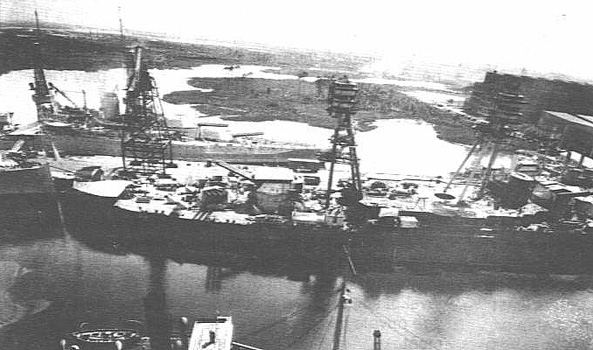 The U.S. Navy battleship USS Arizona (BB-39) at the Norfolk Naval Shipyard, Virginia (USA), on 3 June 1930. The battleship was one of several worked on here during the Battleship Modernization Program in the 1930s. In the photograph, the ship's superstructure has been removed and new masts have been installed.